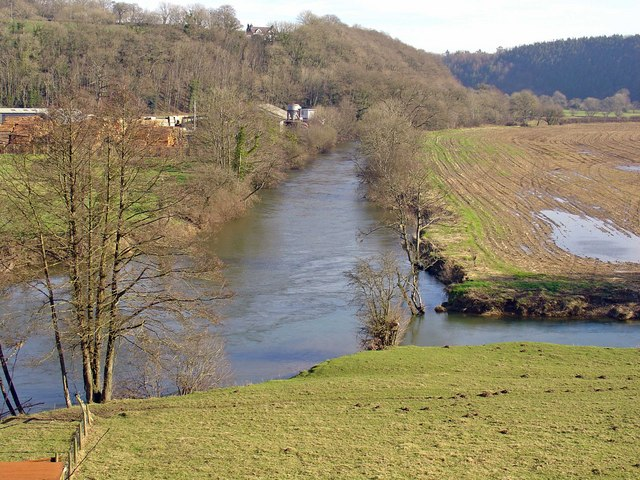 Aber-cych Afon Cych entering the River Teifi from the right. A sawmill on the left of the river. Stradmore House on the hilltop.